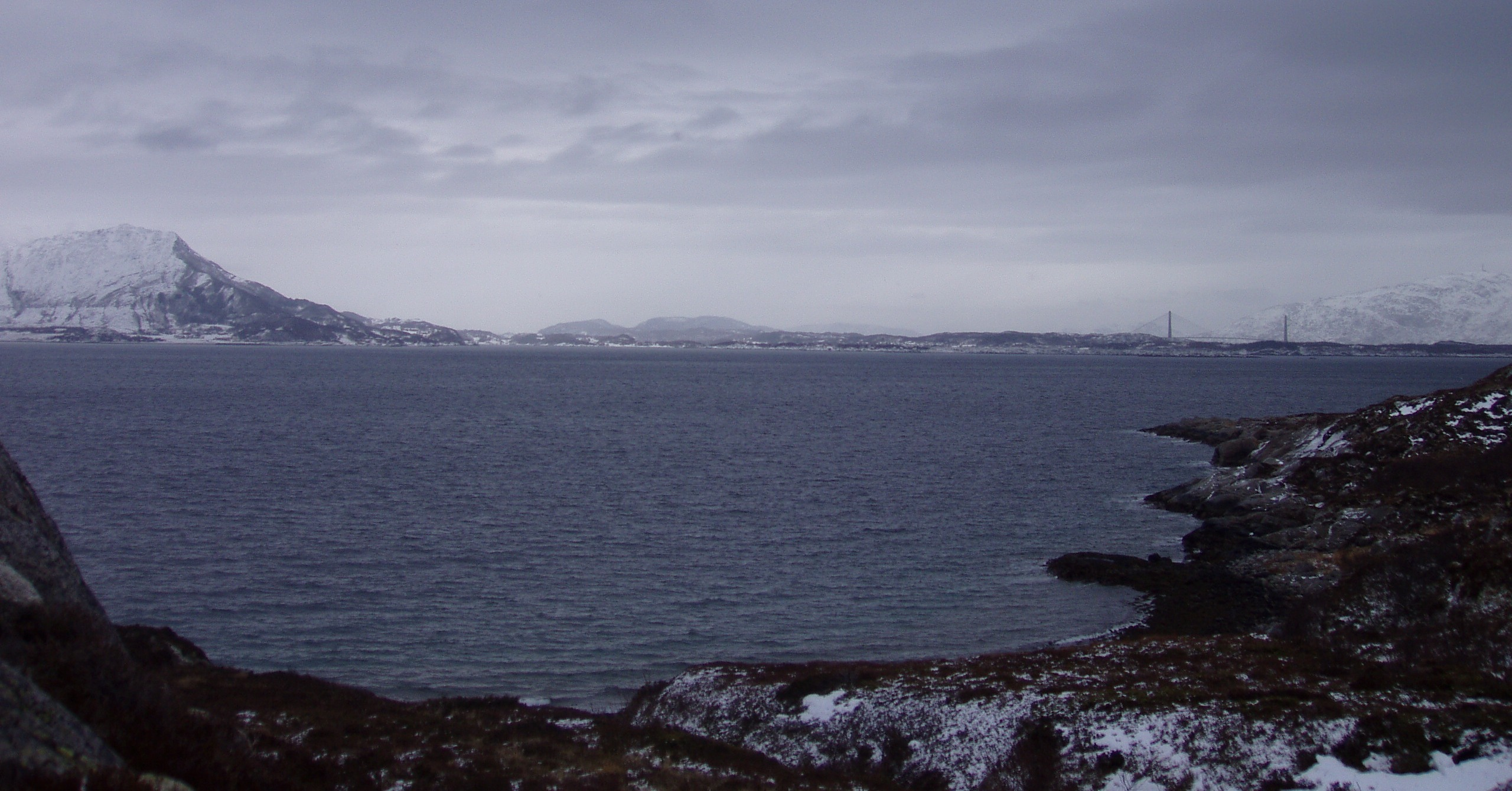 The firth Ulvangen in Leirfjord seen from Skorpa